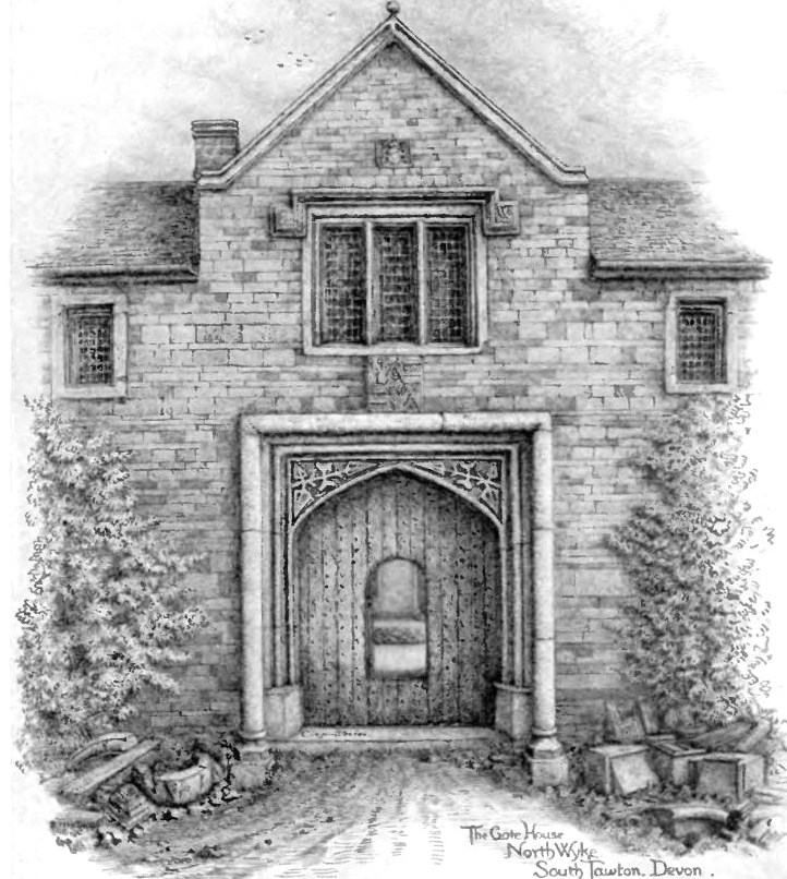 Image from scanned version of "A Book of Dartmoor" by Sabine Baring-Gould, published in 1907 and in the Public Domain. Image has been cropped and lightened. The heraldic shield is modern, was placed there in 1904 (